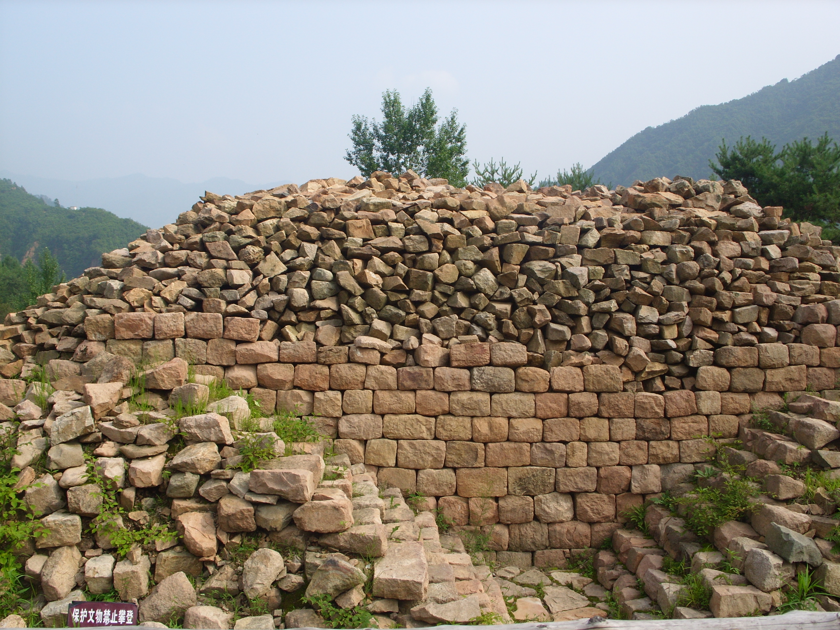 Hwando Mountain Fortress' watchtower